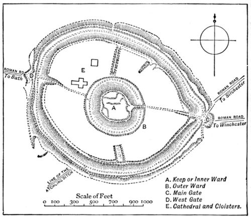 "Plan of the city of Old Sarum, the ancient Sorbiodunum. The cathedral is of a later date."LegendA. Keep or Inner WardB. Outer WardC. Main GateD. West GateE. Cathedral and Cloisters.